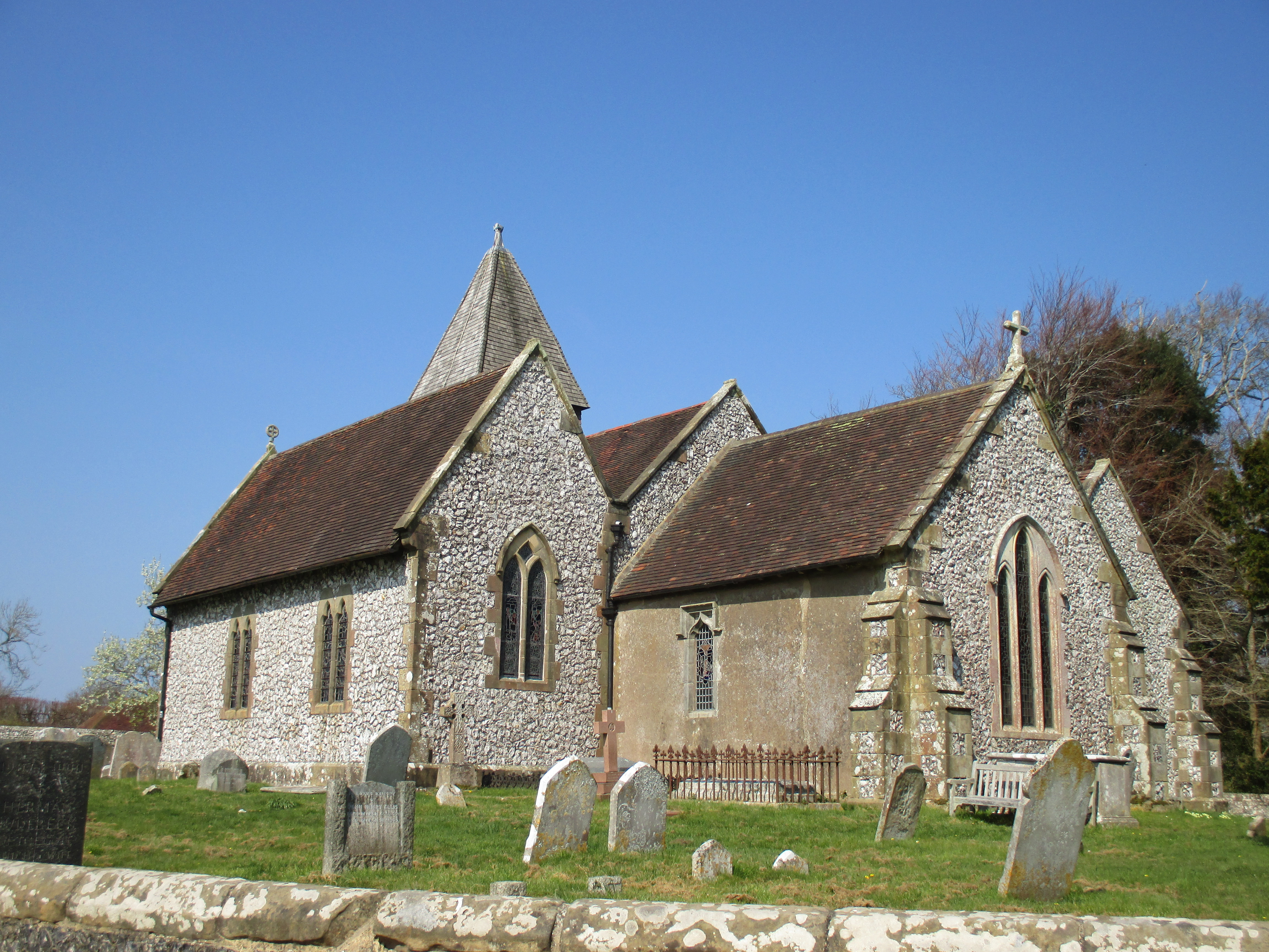 The parish church of Streat, East Sussex, seen from the south-east.